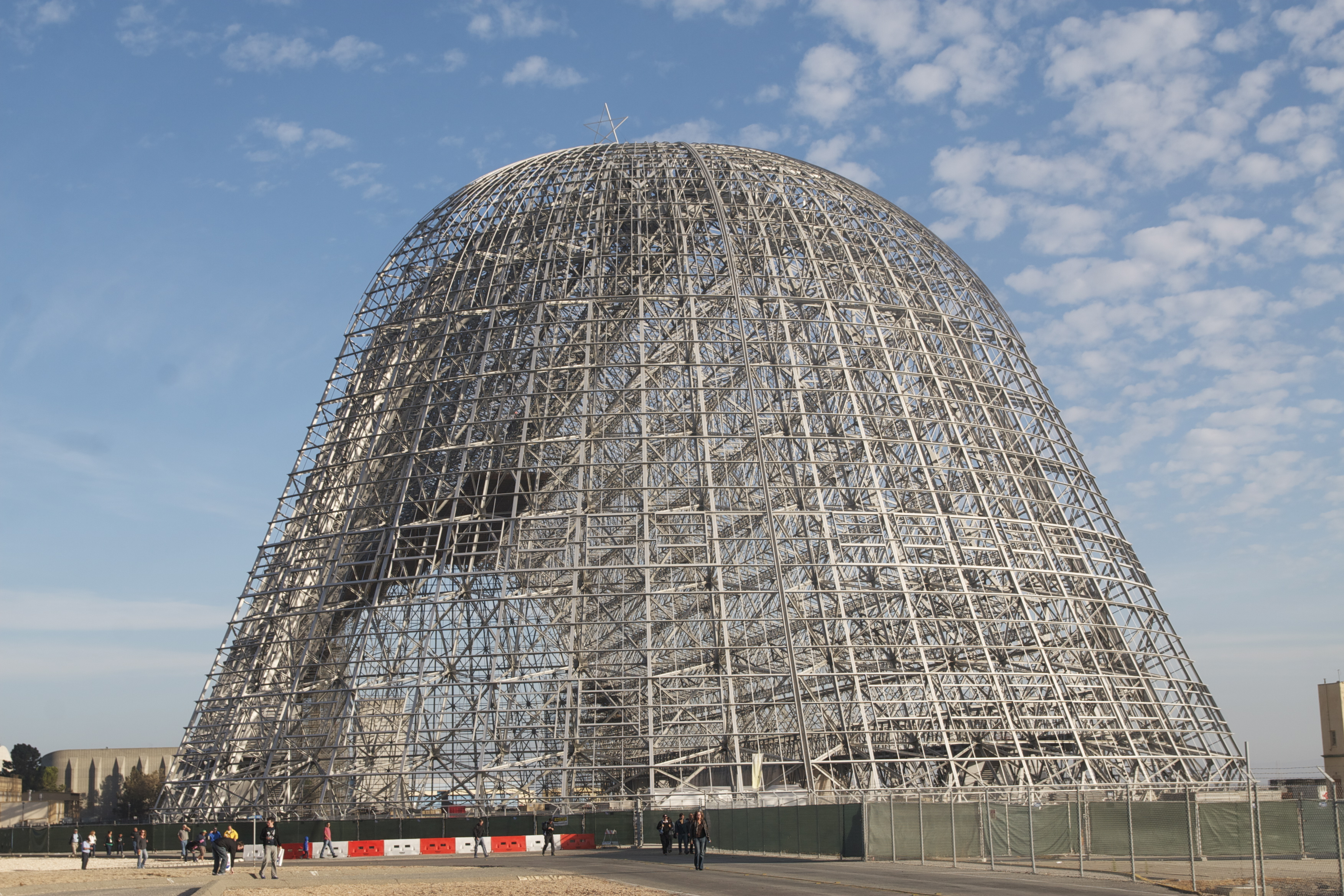 The structural frame of the hangar after exterior panels have been removed.